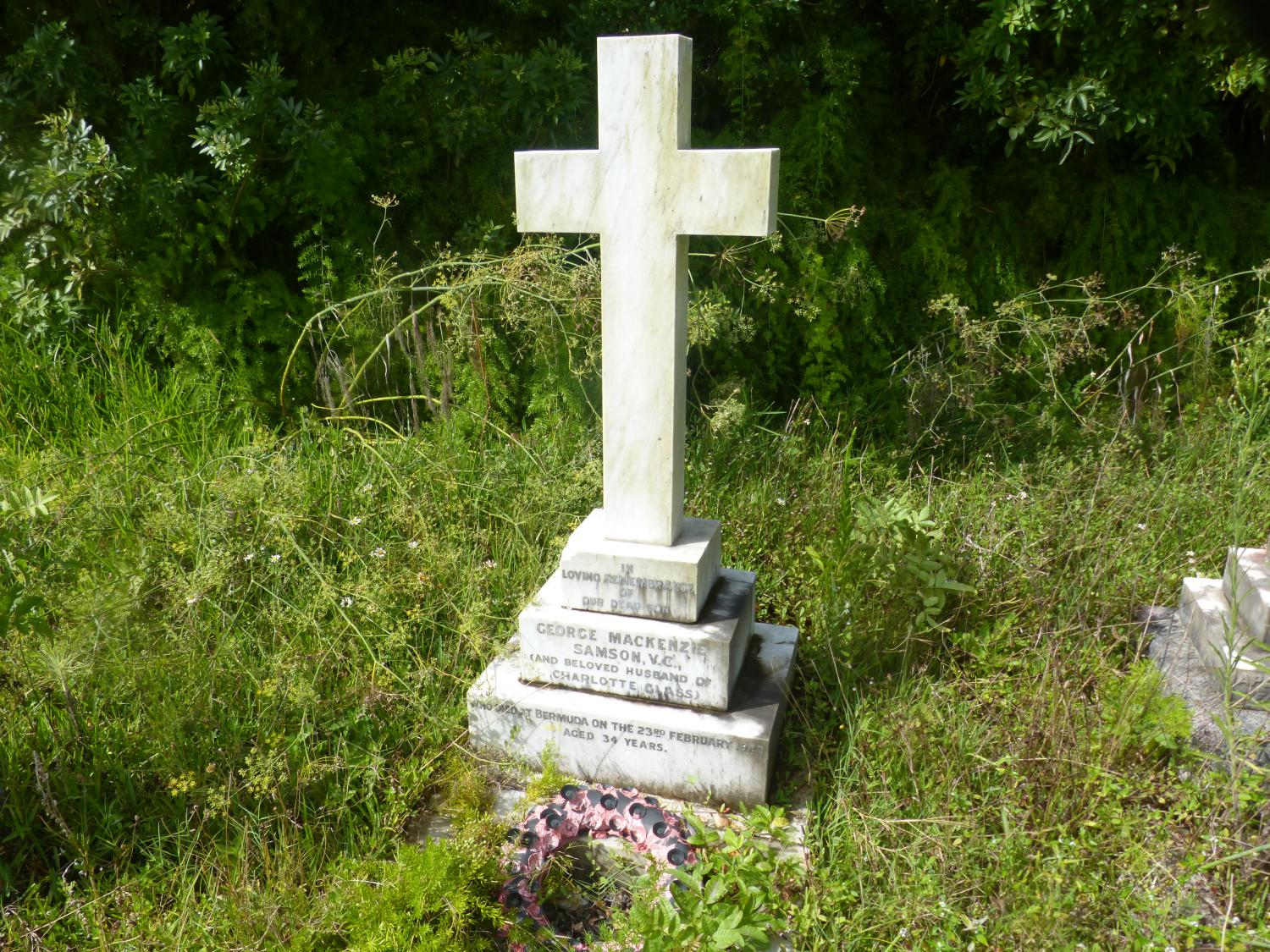 The grave of George MacKenzie Samson, Victoria Cross, at the (new) St. George's Military Cemetery (adjacent to the municipal cemetery shared by the Church of England parish church, St. Peter's Church, and the churches of other denominations in St. George's town) on Secretary Road, in St. George's, Bermuda. The cemetery replaced the old St. George's Garrison Military Cemetery on Grenadier Lane (opposite the current Bermuda Branch of the Royal Artillery Association).